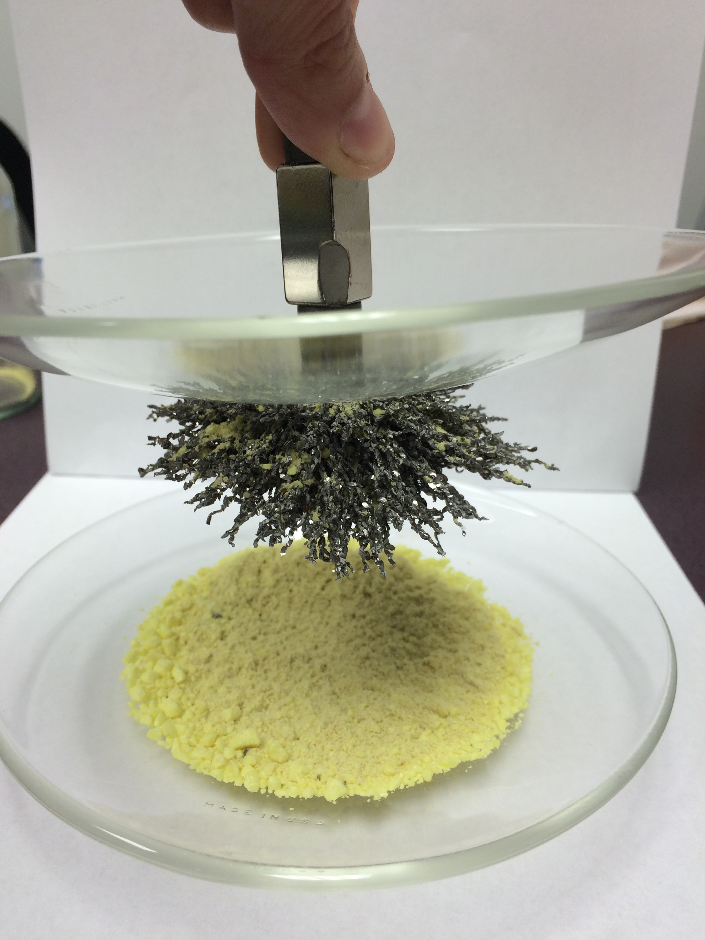 Mixture of iron and sulfur, separation by magnet